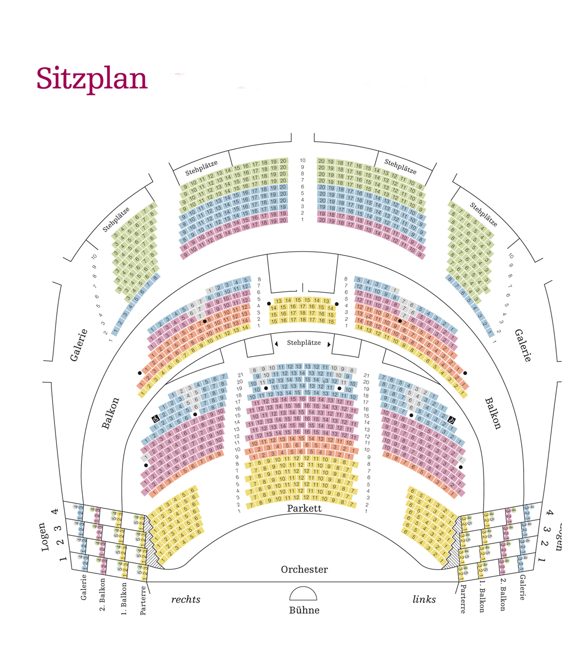 Seating Plan of the popular Opera Vienna (Volksoper Wien)